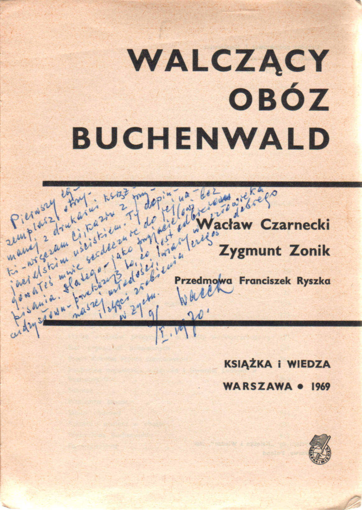 Title page of the Polish language book "Walczący obóz Buchenwald" (The Fighting Concentration Camp Buchenwald) with a dedication by Wacław Czarnecki for fellow Buchenwald prisoner Kazimierz Nowicki The text says in translation: "I am handing to you, dear Kazimierz, with a friendly embrace, the first copy of the book that I have received from the printer. It was you who encouraged me heartily to write it. Therefore, I give to you - my best friend without quotation marks - that which is a reflection of our youth, of our faith in man and of our will to do something good in life. Jan. 9, 1970, Waclaw"